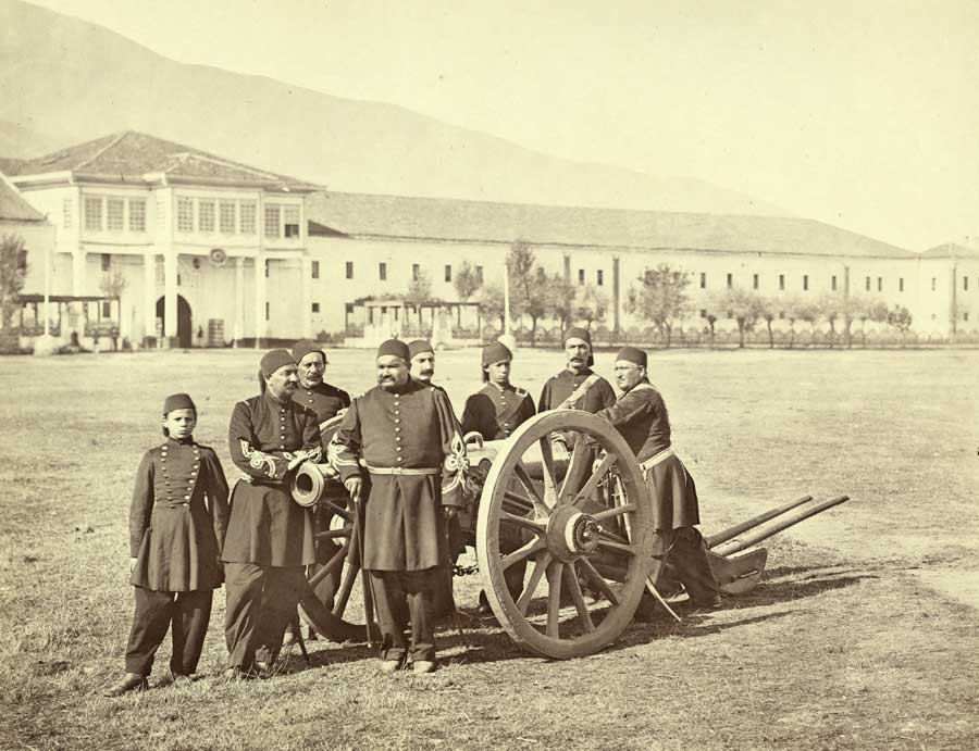 Josef Székely VUES IV 41090 Monastir [Bitola]: group of Ottoman artillerymen. October 1863